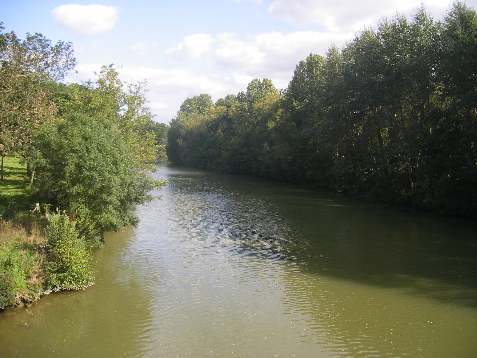 The Aisne River in Pommiers